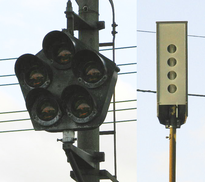 Obstruction warning signal of Japan, left: rotation type, right: flashing type